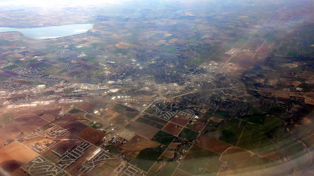 Aerial view of Caldwell, Idaho